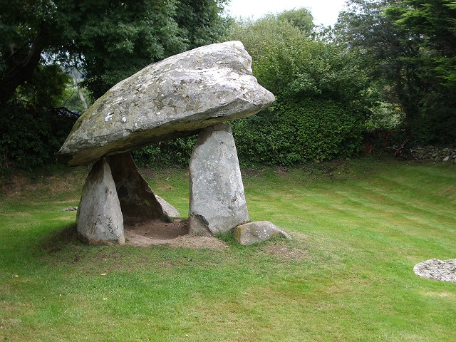 Carreg Coetan, Newport. This burial chamber is in the eastern fringe of Newport, just off the road leading to the bridge.